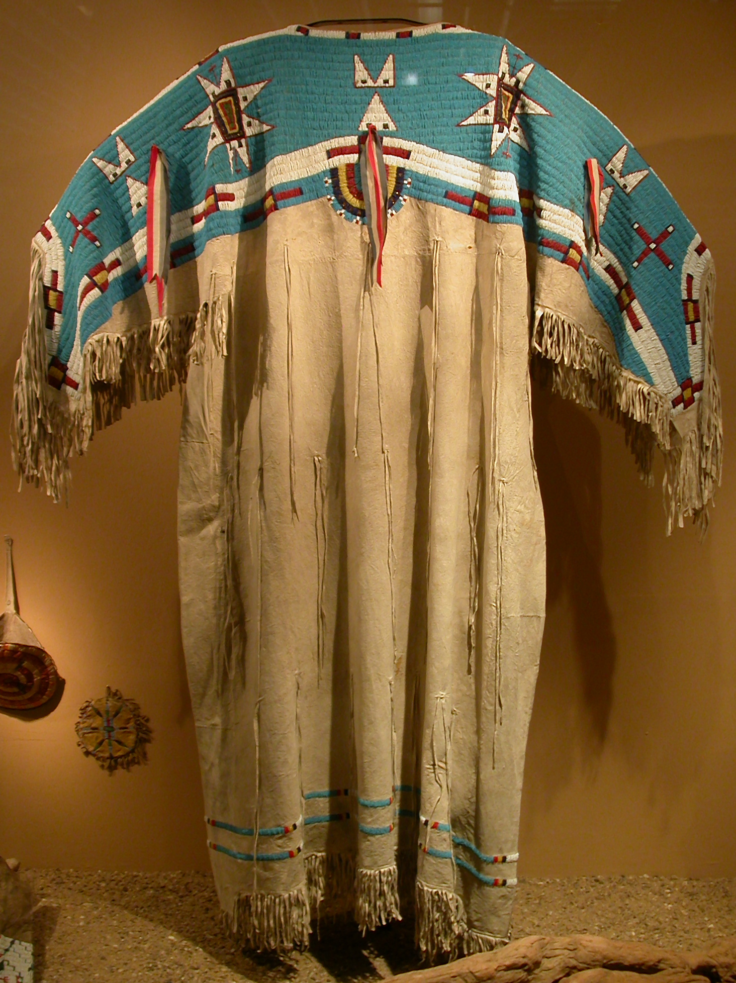 Westfälisches Museum für Naturkunde (Münster), Womendress of the Sioux